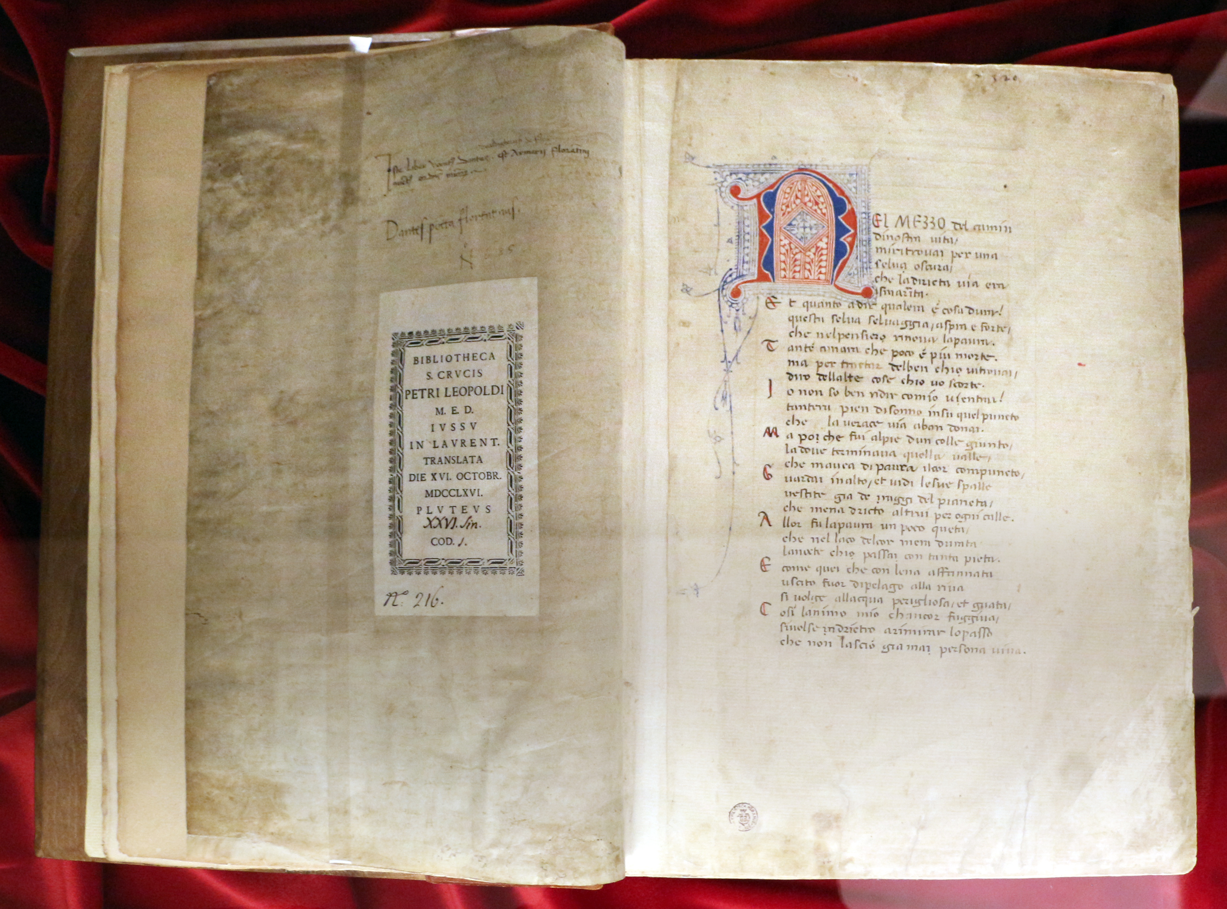 Collections of the Biblioteca Medicea Laurenziana